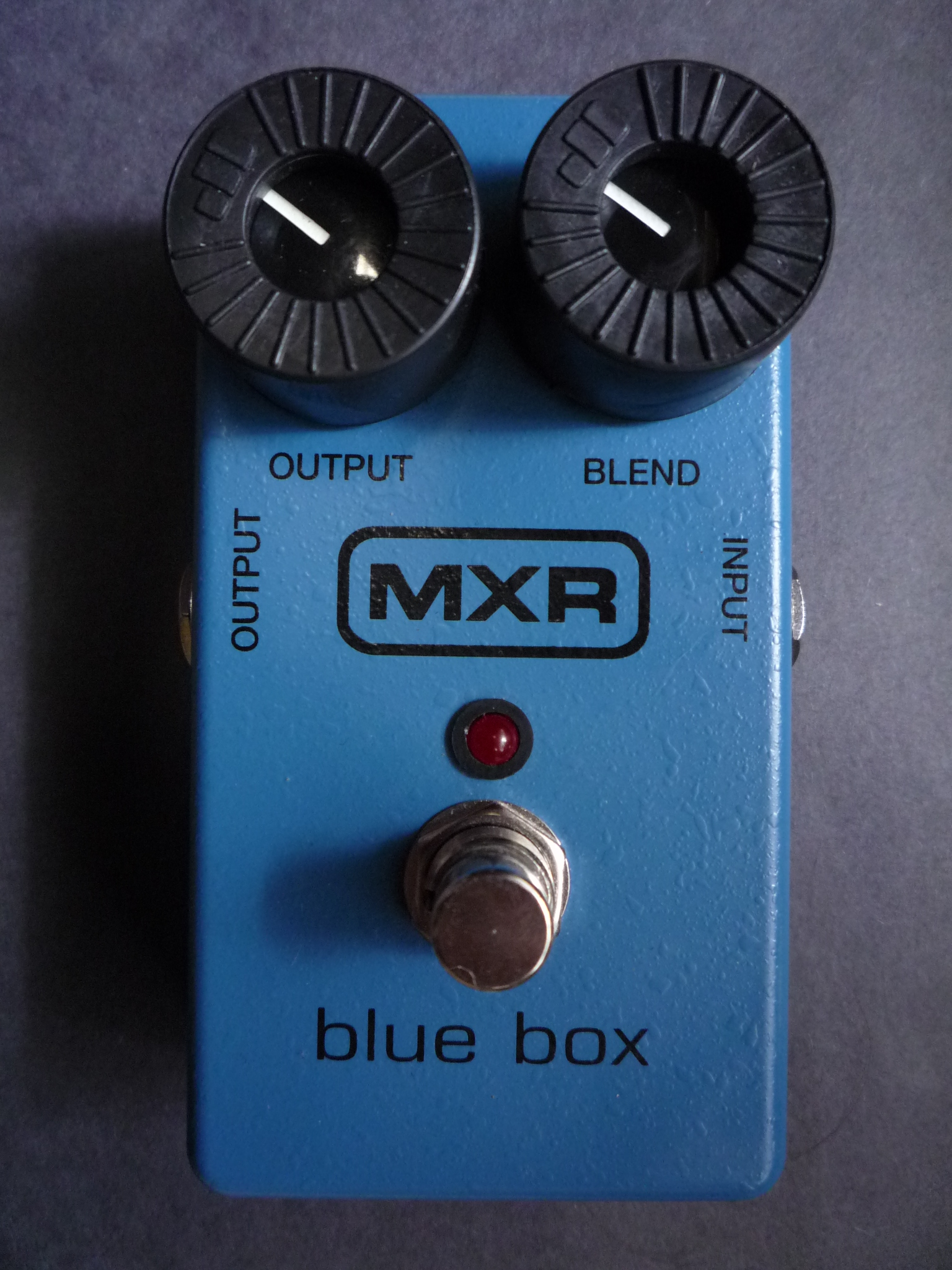 Dunlop/MXR M-103 Blue Box reissue (current production) from Matt's personal collection.